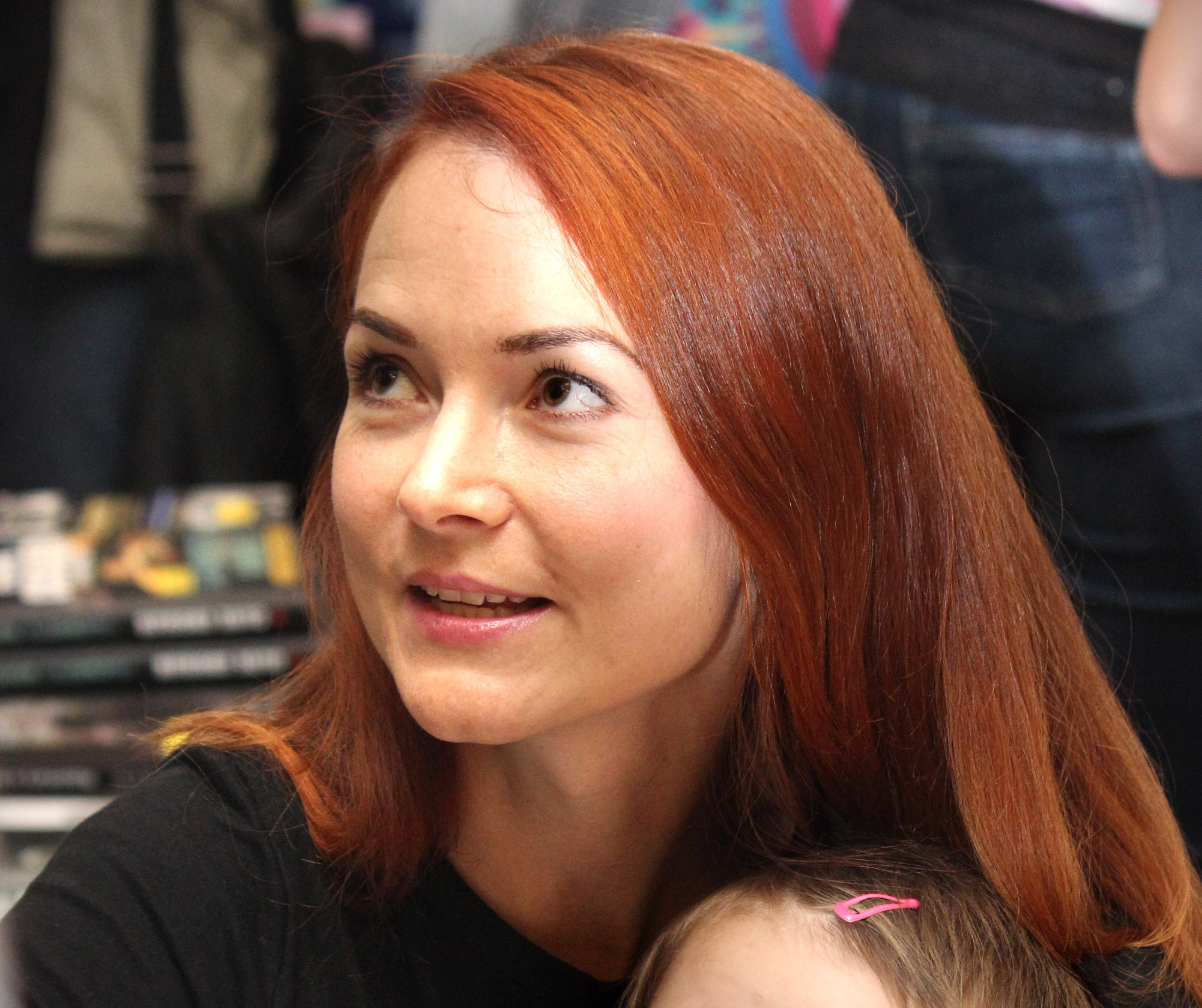 Czech writer Radka Třeštíková.